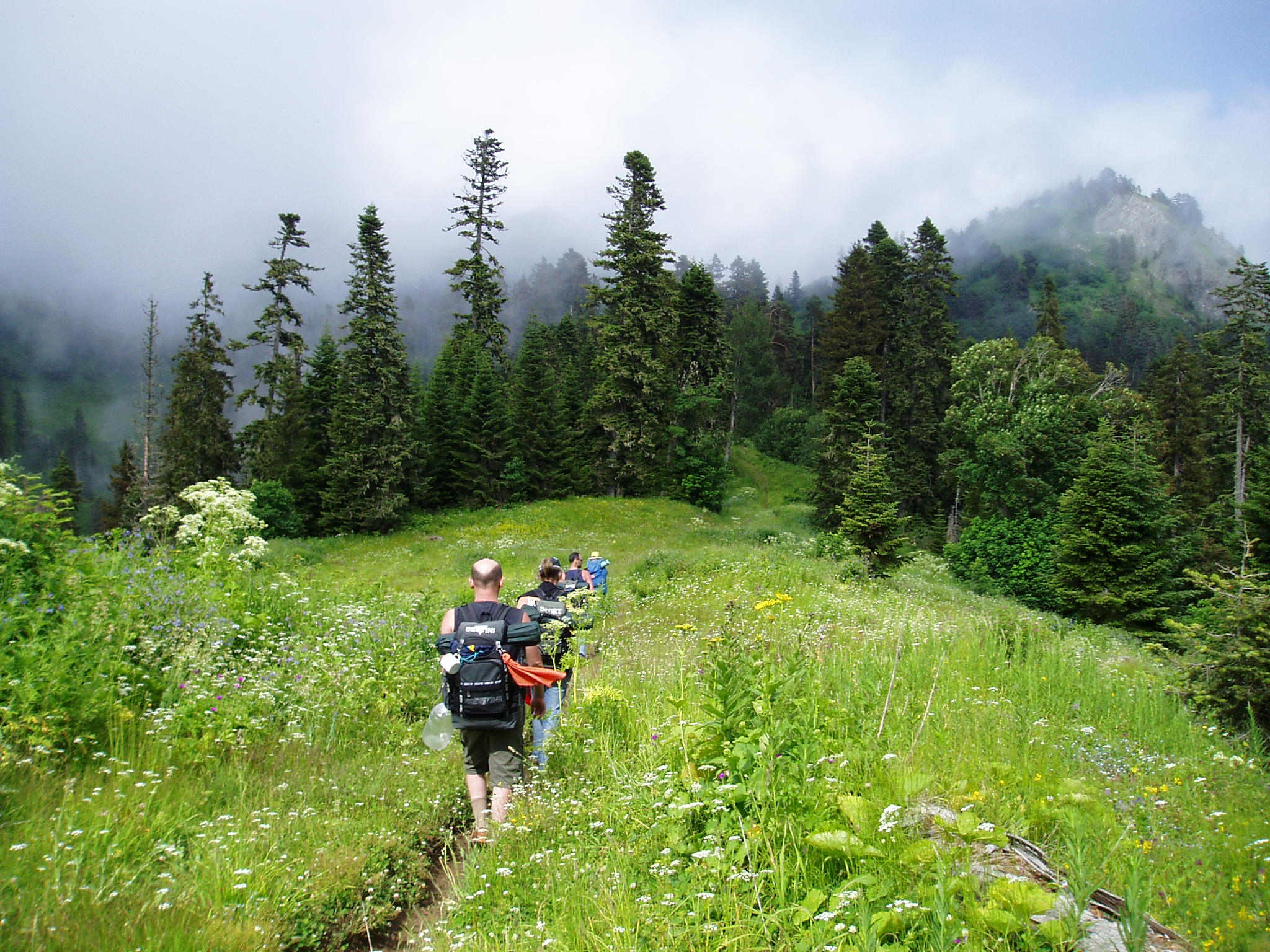 Borjomi-Kharagauli National Park. Trees are Abies nordmanniana and Picea orientalis.